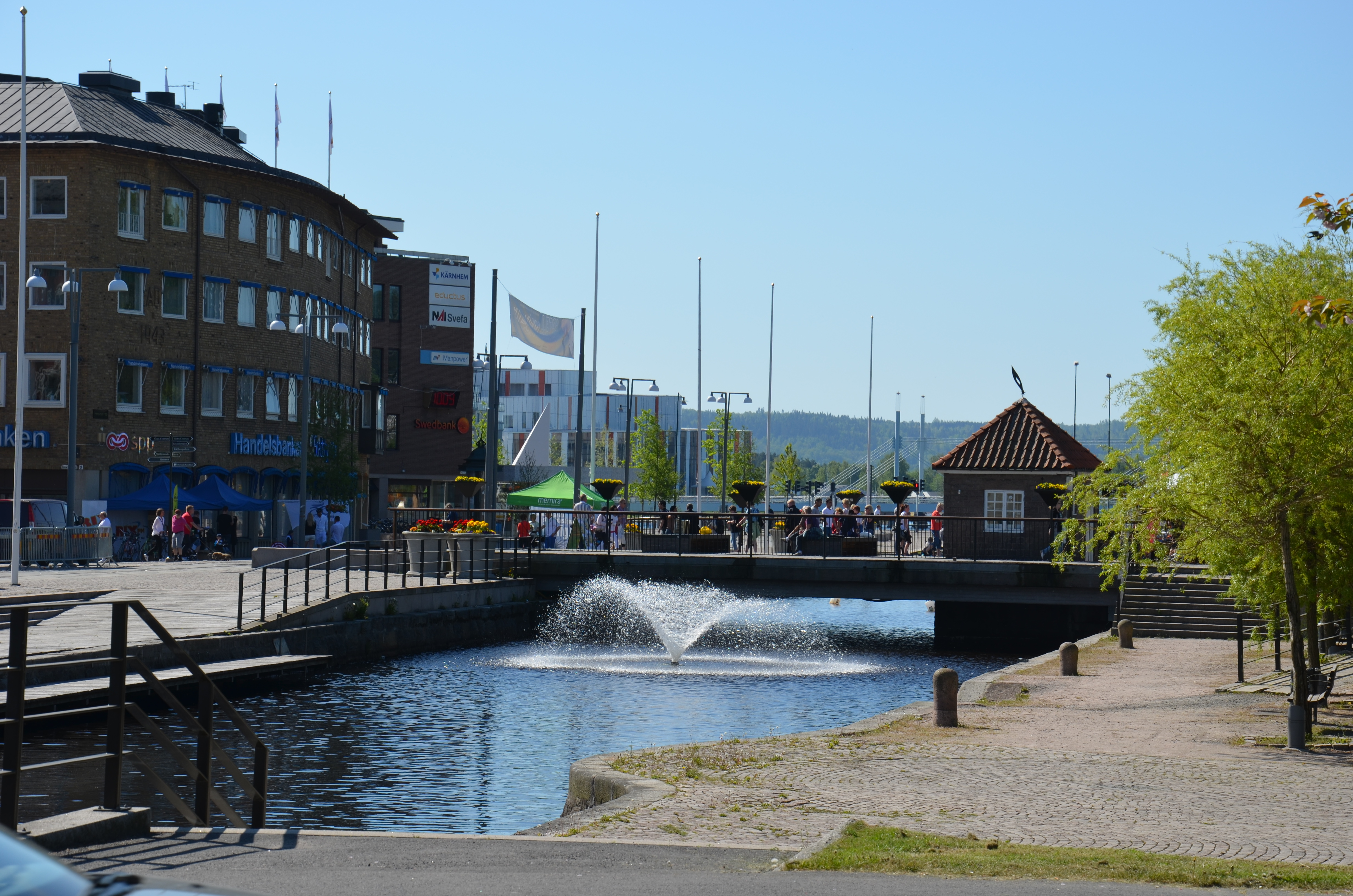 Vindbron, a bridge in central Jönköping over the canal between lake Vättern och lake Munksjön